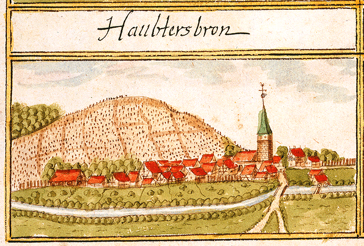 View of Haubersbronn, Schorndorf, from the forest register books created by Andreas Kieser